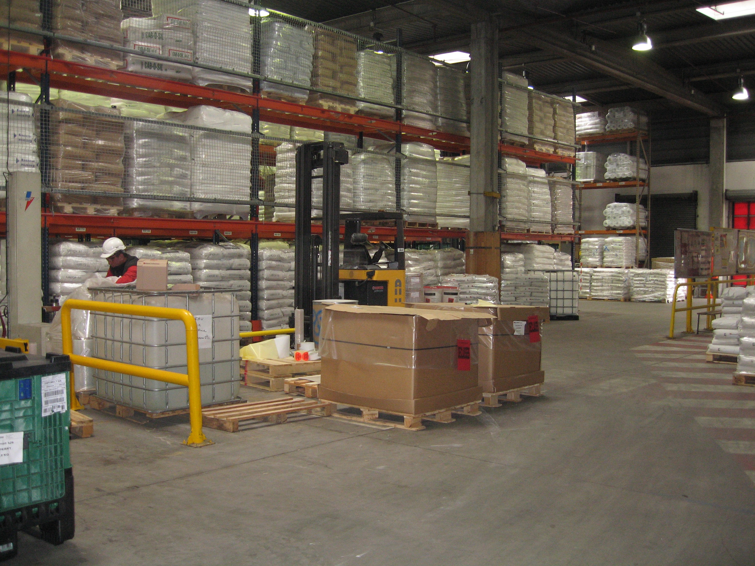 Raw material warehouse for the manufacture of plastics.